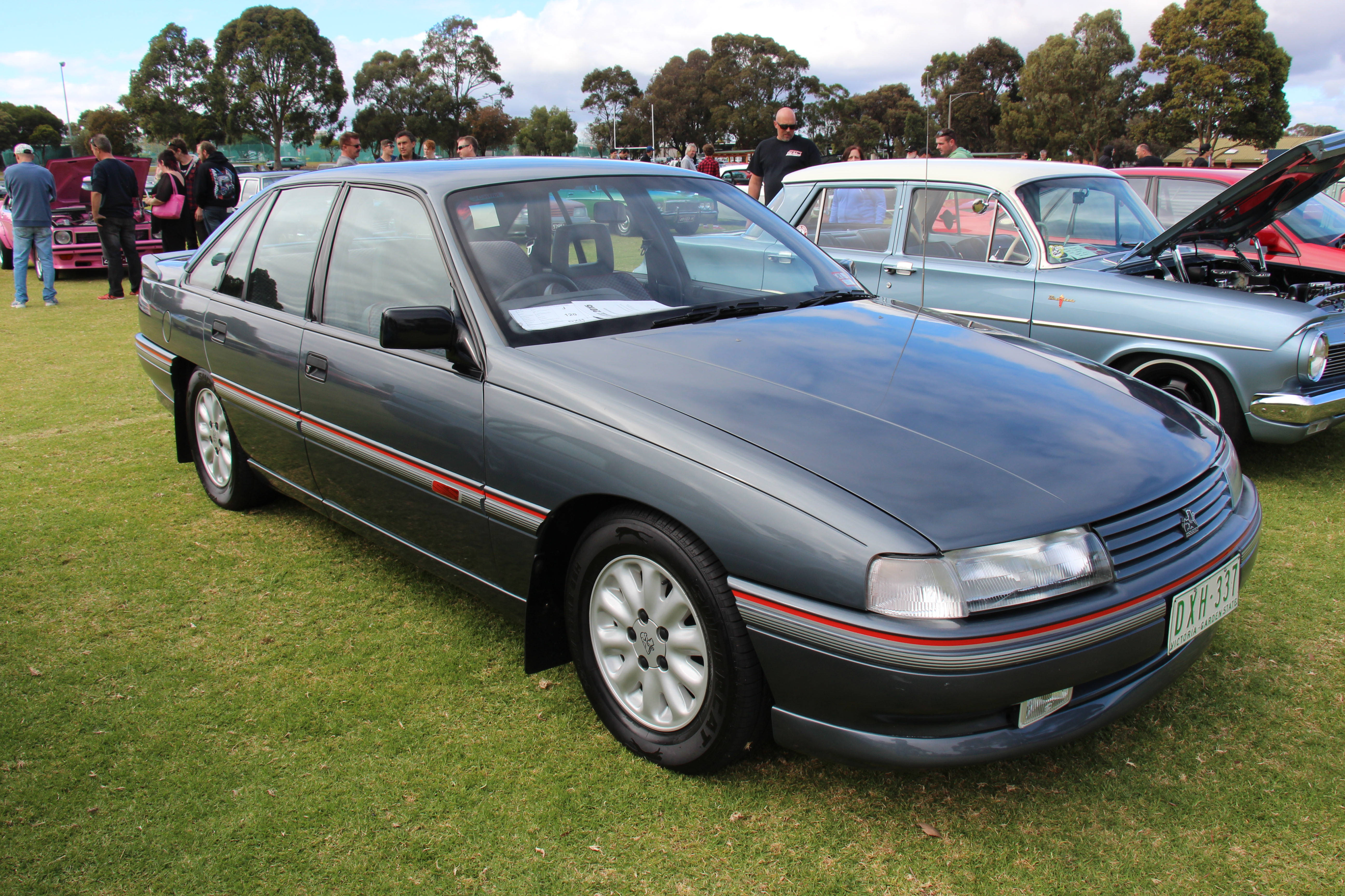 07/1989 Holden VN Commodore SS sedan